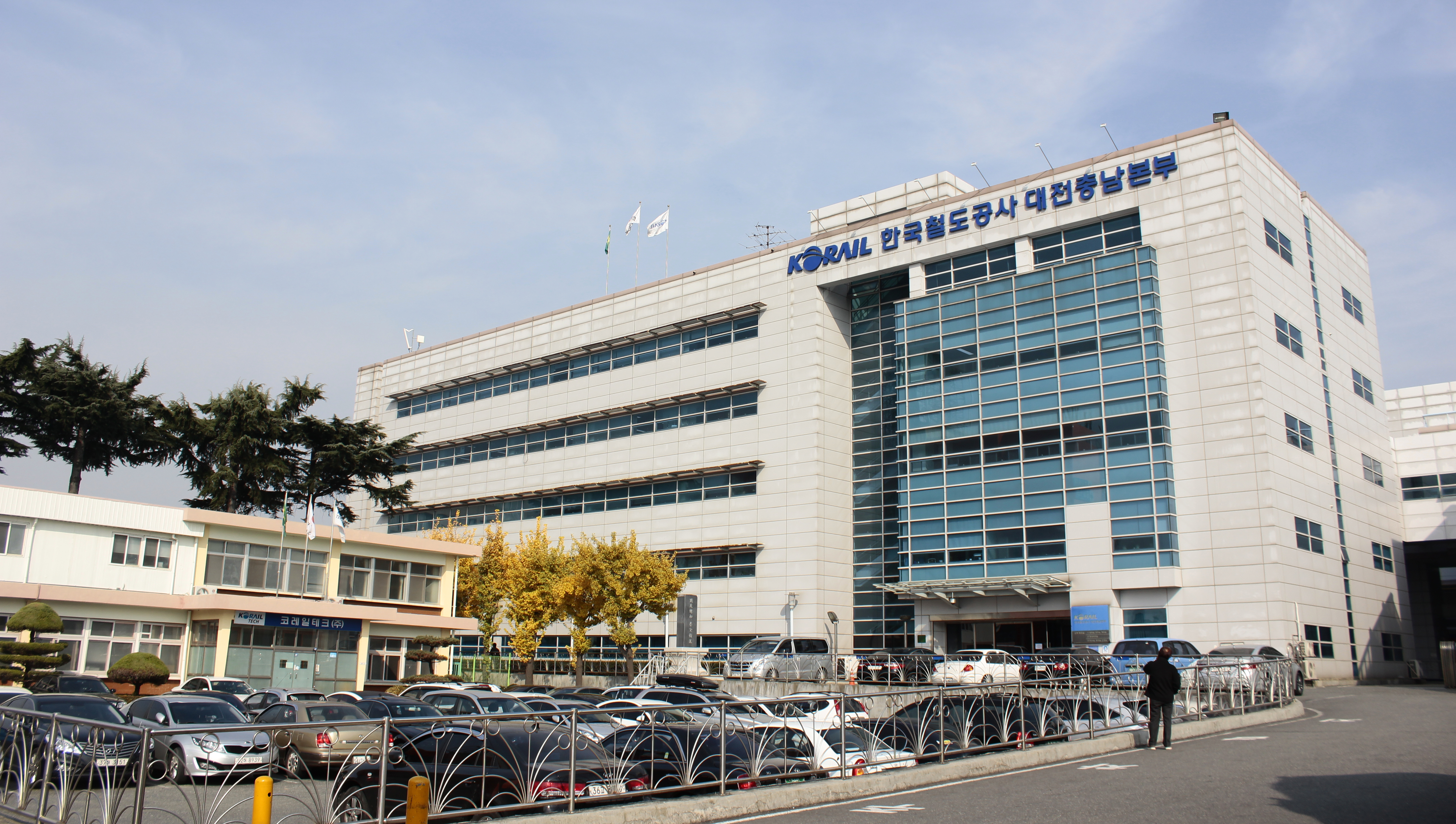 @Daejeon Station